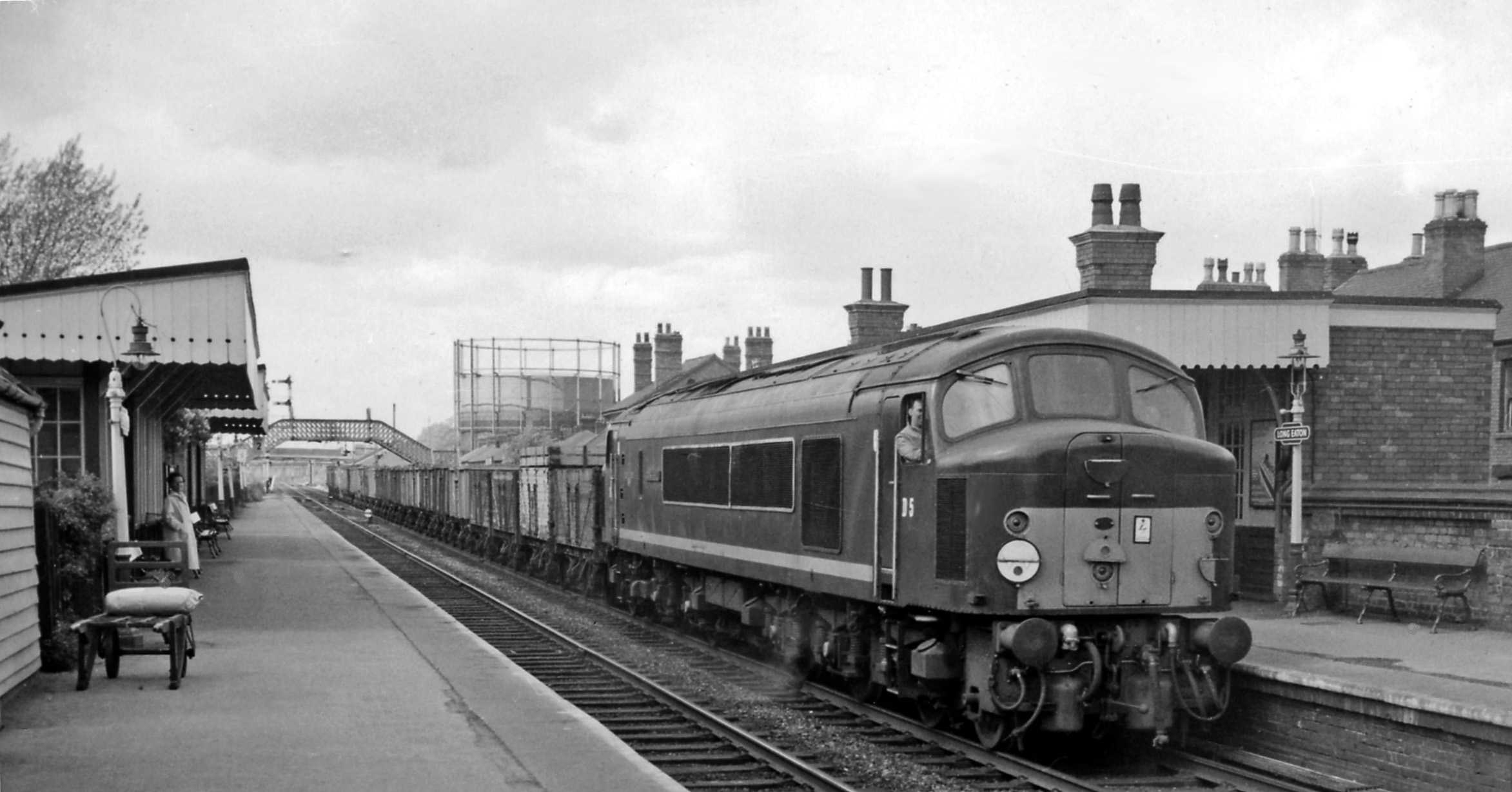 Diesel-hauled empties passing one of the original Long Eaton Stations. View northwards, towards Toton Marshalling Yard (a mile ahead) and the Erewash Valley ex-Midland main line to Chesterfield, Sheffield etc. The station closed on 2/1/67; the former Sawley Junction, 1½ miles west and on the Trent - Derby line was renamed Long Eaton in 1/68 and remains to serve the town. The locomotive is one of the first English-Electric 'Peak' Type 4 (later Class 44) 2,300hp 1-Co-Co-1's, No. D5 'Cross Fell' - built in 1959.